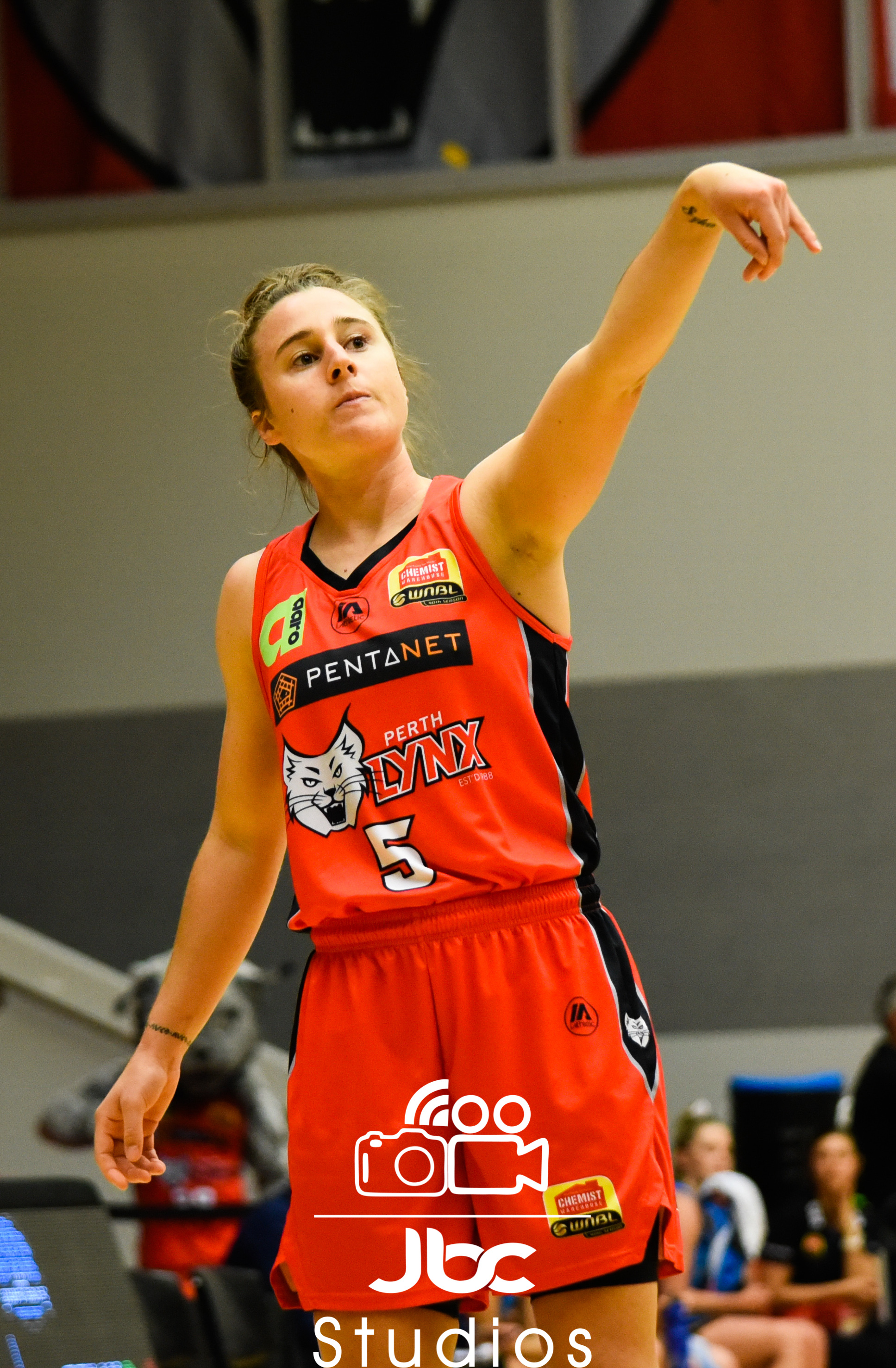 Lauren Mansfield puts up a jump shot during the 2019/20 WNBL Round 11 Match between the Perth Lynx and the UC Capitals